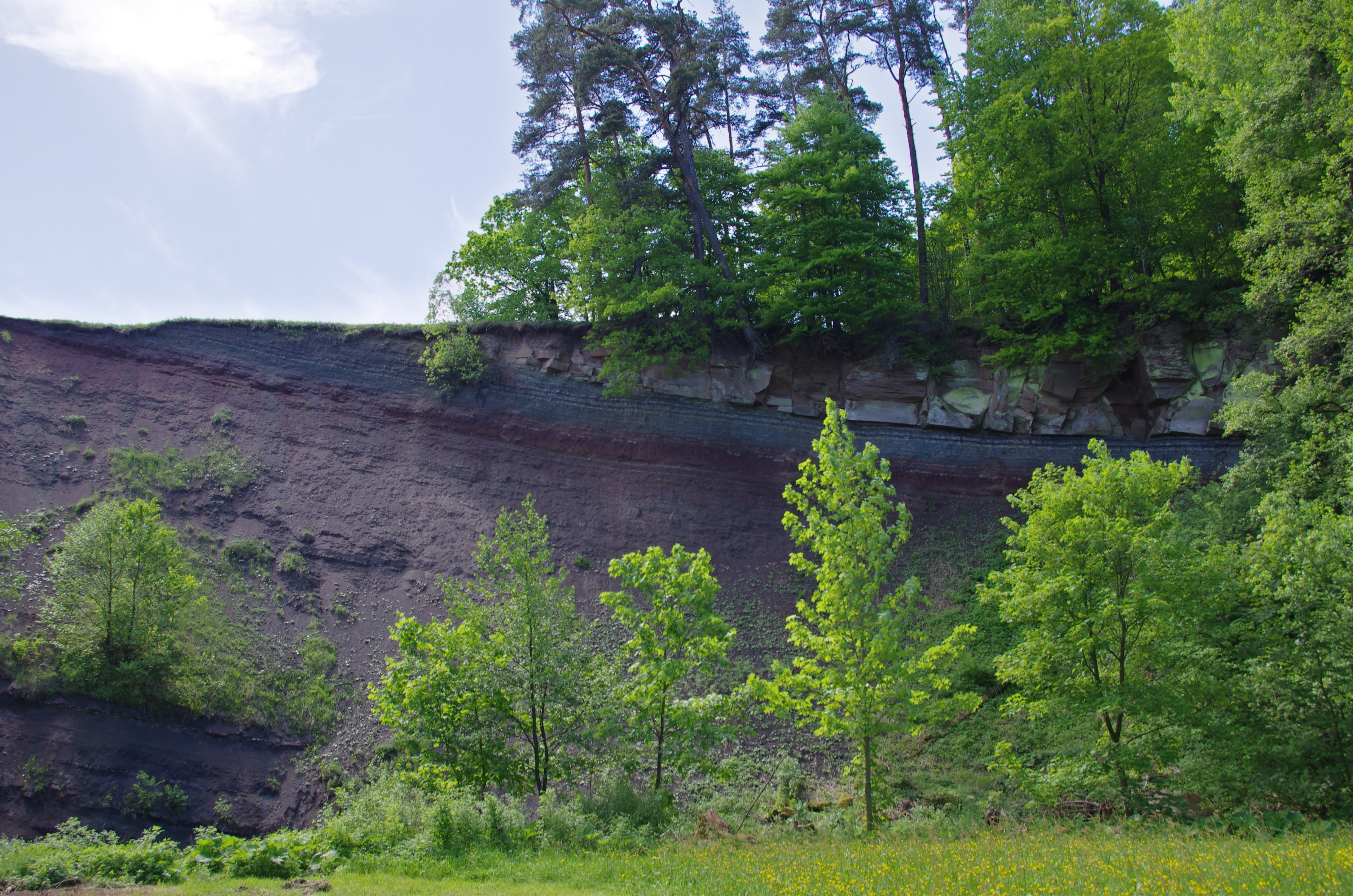 The Bodenmühlwand near Bayreuth, Germany